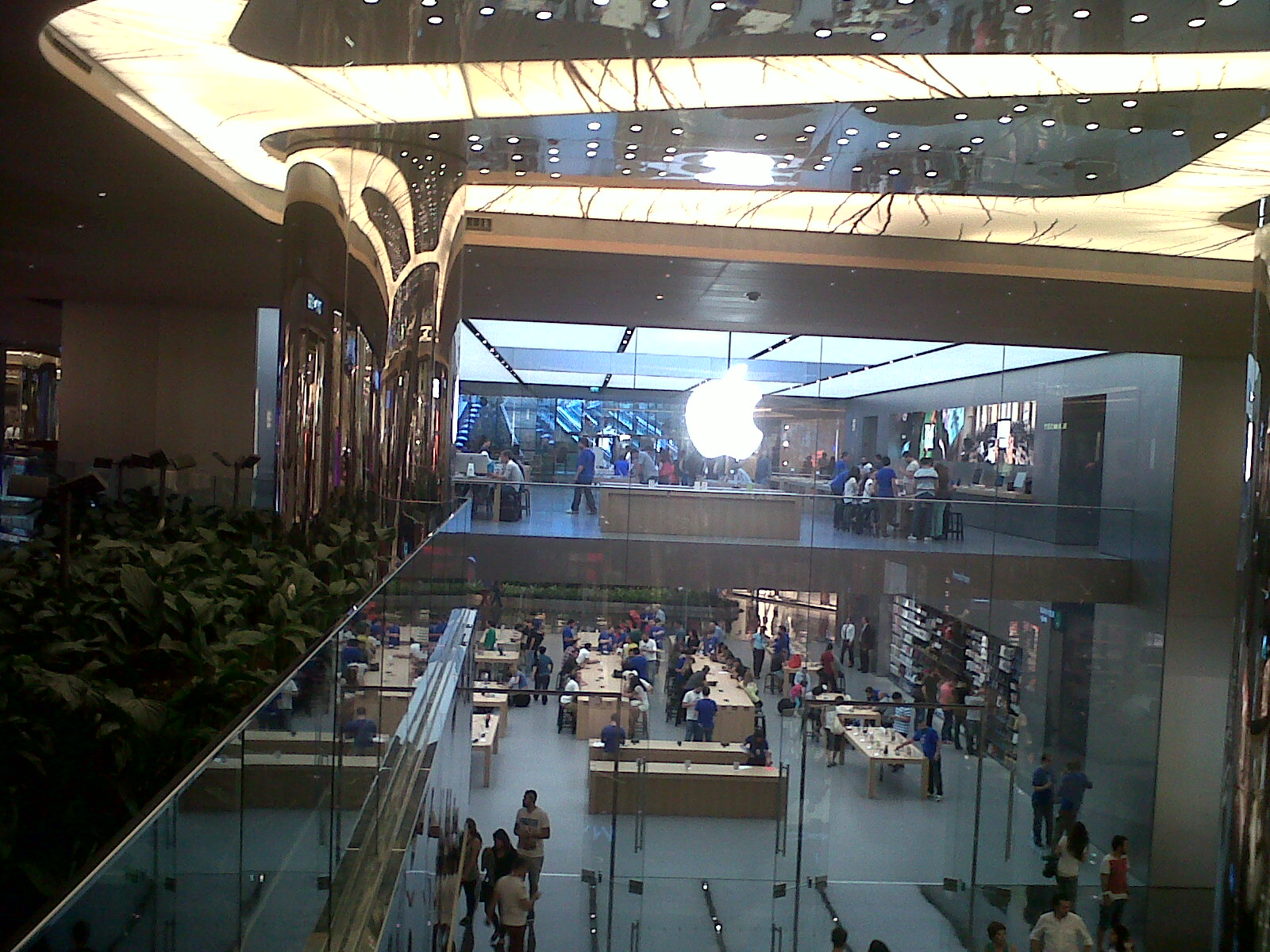 Zorlu Center İstanbul, First Apple Store in Turkey